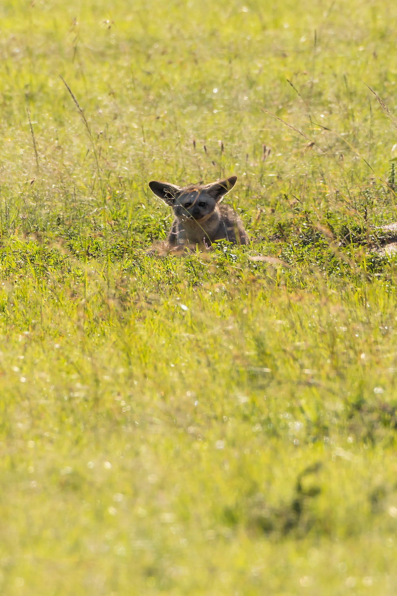 Bat Eared fox, normally a nocturnal animal enjoying sunlight in Masai Mara National Reserve in May 2018